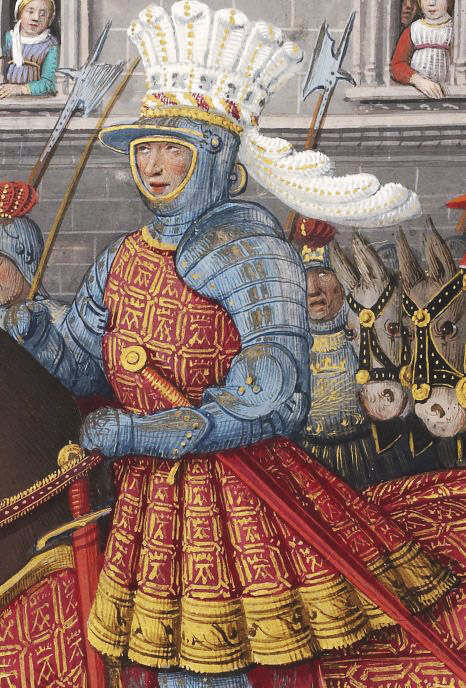 Louis XII(27 June 1462 – 1 January 1515), King of France(1498 – 1 January 1515), entering Genoa in 1507. Miniature.